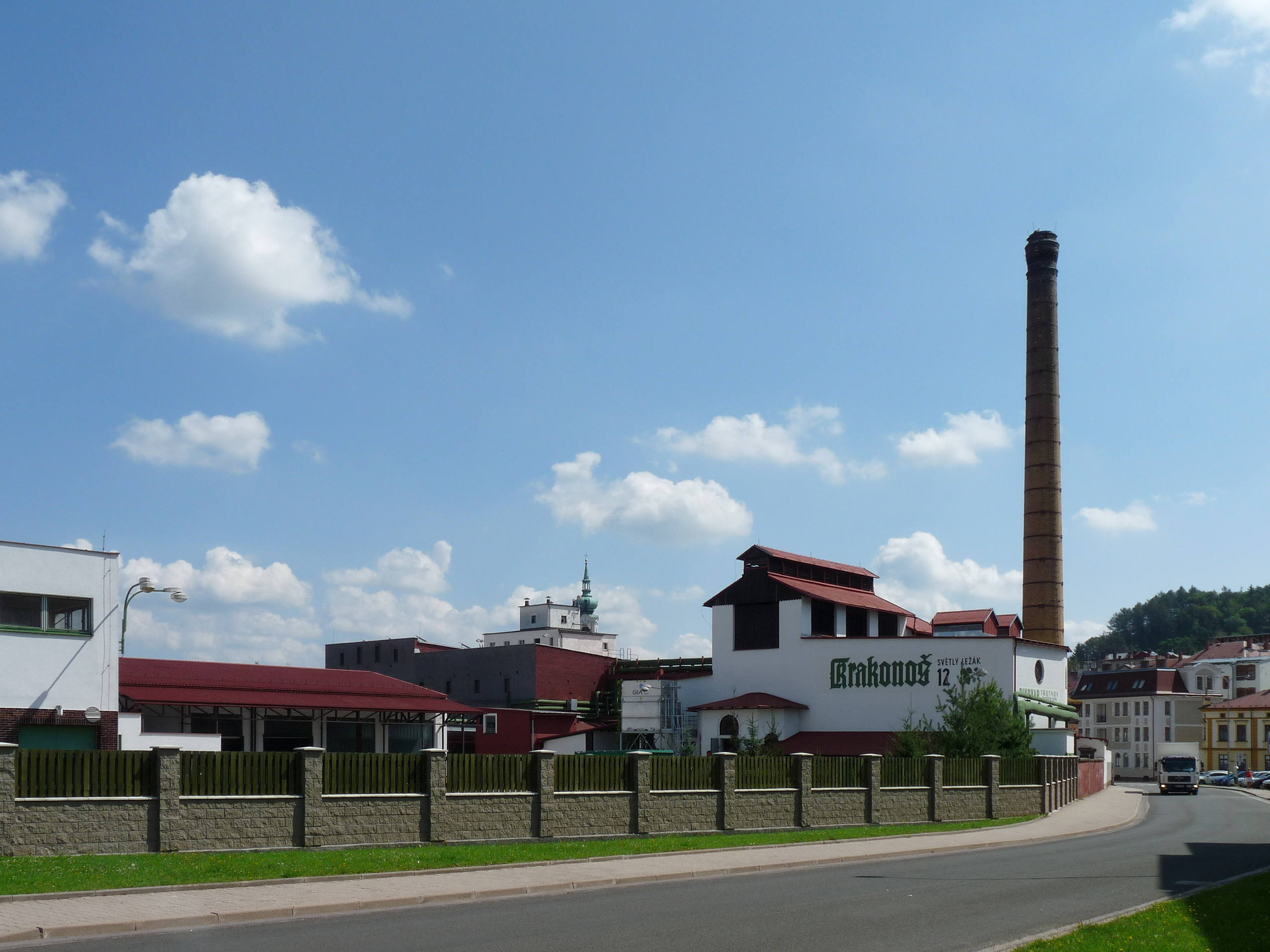 Krakonoš brewery in the town of Trutnov, Hradec Králové Region, Czech Republic.